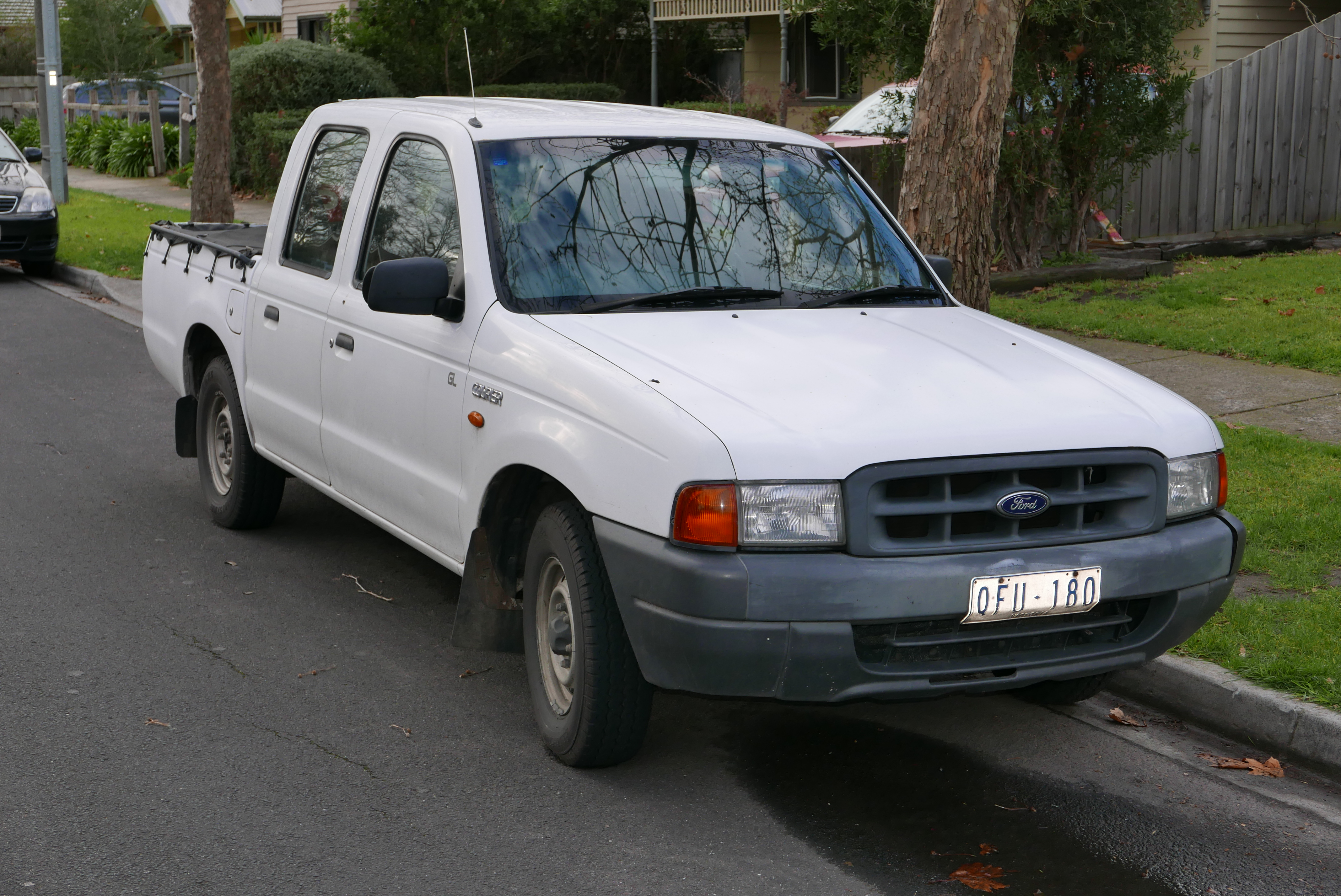 2000 Ford Courier (PE) GL 4-door utility. Photographed in Alphington, Victoria, Australia. Vehicle registration enquiry resultsJurisdictionVictoriaRegistrationQFU180Chassis codeMNABSFD70YW142796Engine codeG6235539Compliance date2000-04Year of manufacture2000